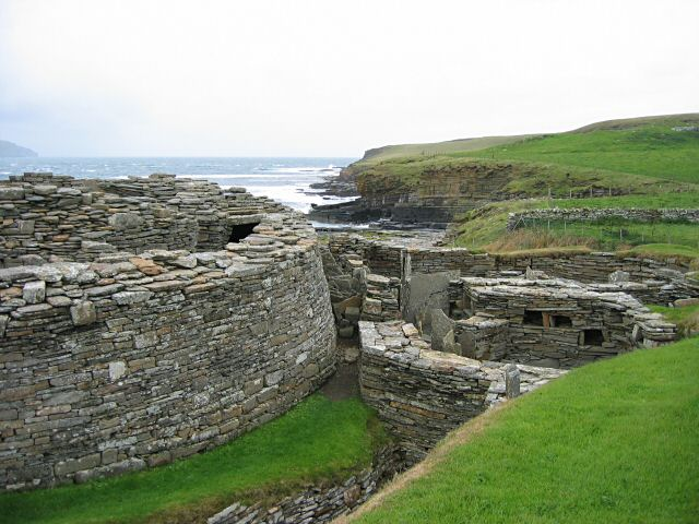 Midhowe Broch and outbuildings on Rousay, Orkney.